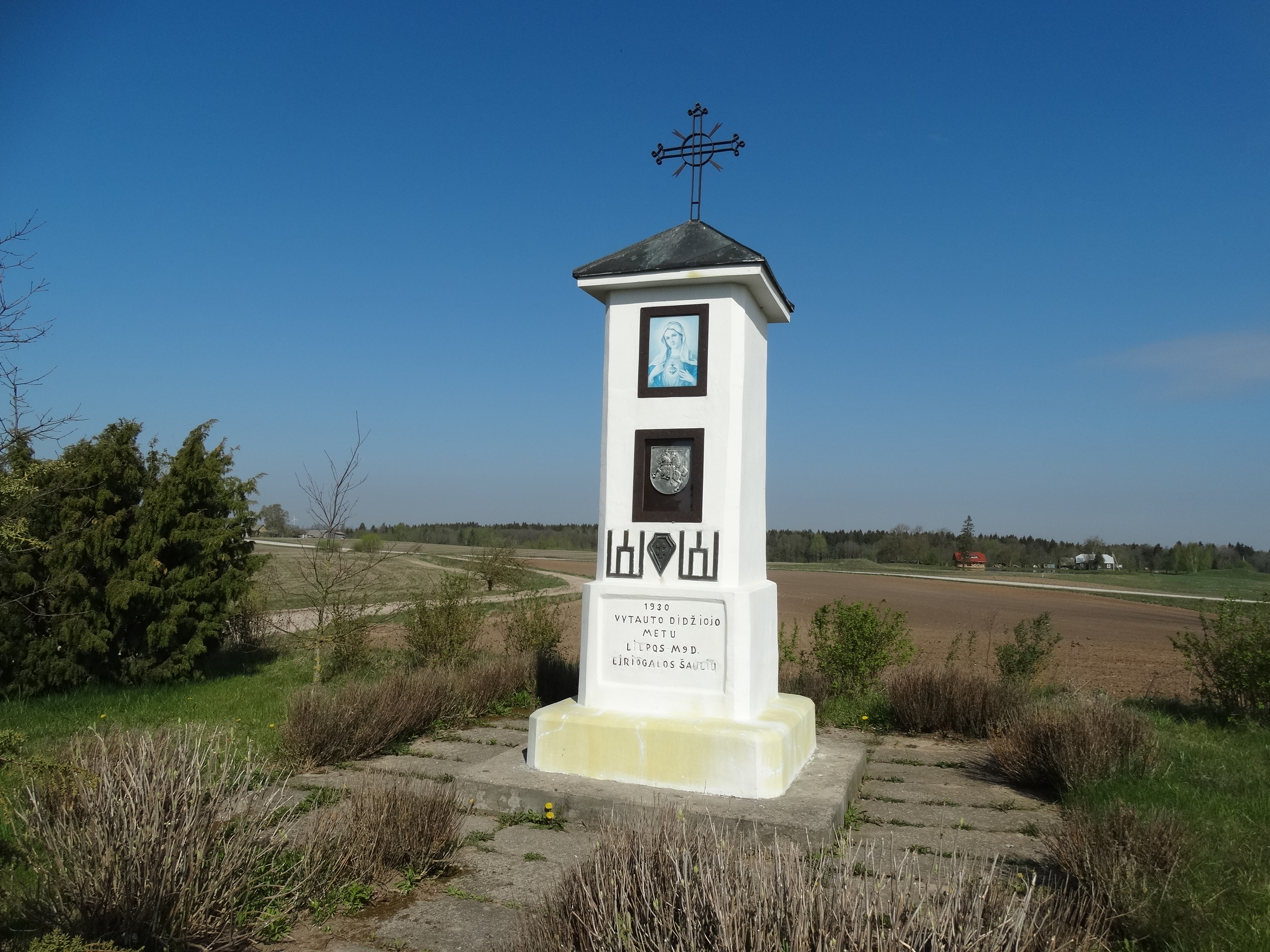 Eiriogala, Kaišiadorys District, Lithuania